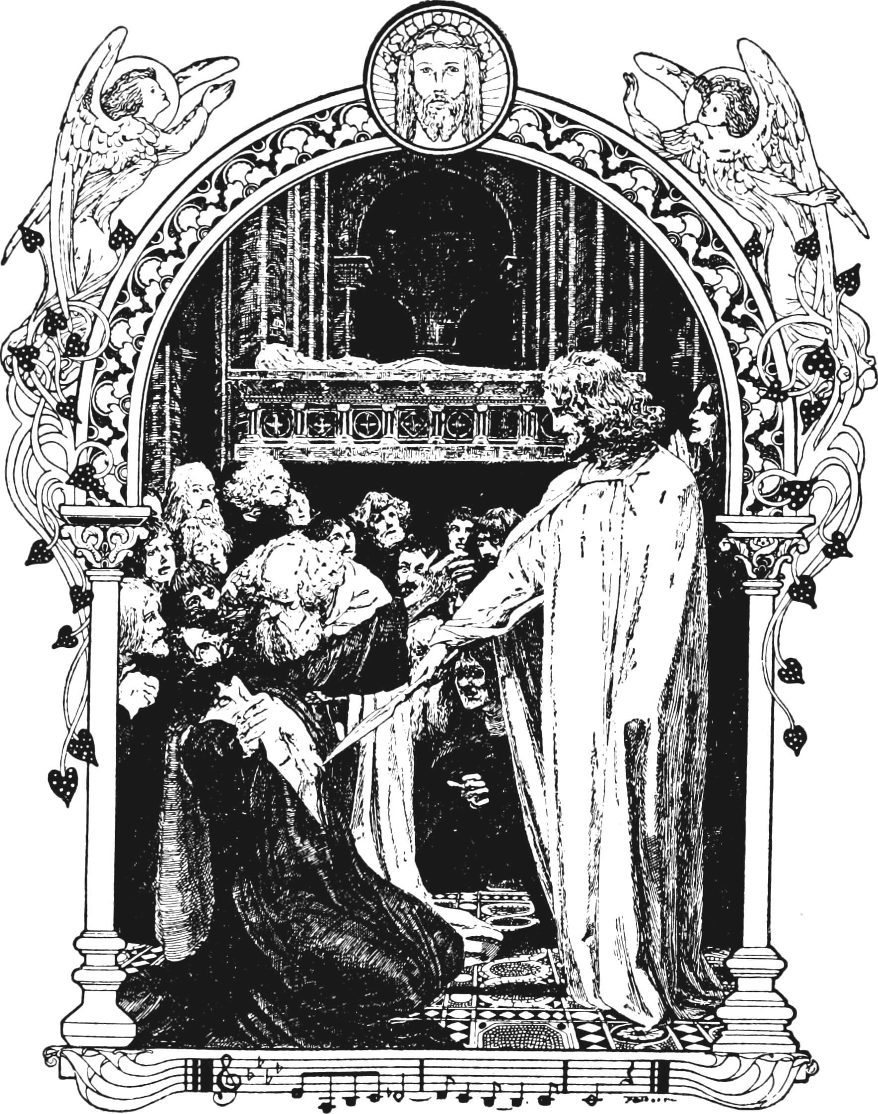 Wagner - Parsifal, act III - Parsifal healing Amfortas Title: The Victrola book of the opera : stories of one hundred and twenty operas with seven-hundred illustrations and descriptions of twelve-hundred Victor opera records Year: 1917 (1910s) Authors: Victor Talking Machine Company Rous, Samuel Holland Subjects: Operas Publisher: Camden, N.J. : Victor Talking Machine Co. Text Appearing Before Image: AMFORTAS (Tears open his dress.) Behold me!—the open wound behold! Here is my poison—my streaming blood.Take up your weapons!Kill both the sinner and all his pain:The Grails delight will ye then regain! VICTROLA BOOK OF THE OPERA—WAGNERS PARSIFAL Text Appearing After Image: PARSIFAL HEALING AMFORTAS ACT III All have shrunk back in awe and Amfortas stands alone in fearful ecstacy. Parsifal,accompanied by Gurnemanz and Kundry, has entered unperceived, and now advancing,stretches out the Spear, touching Amfortas side with the point. Parsifal: One weapon only serves:— The one that struck Can staunch thy wounded side. Amfortas countenance shines with holy rapture, and he totters with emotion, Gurnemanzsupporting him. Parsifal: Be whole, unsullied and absolved! For I now govern in thy place. Oh, blessed by thy sorrows, For Pitys potent might And Knowledges purest power They taught a timid Fool. The holy Spear— Once more behold in this. All gaze with intense rapture on the Spear which Parsifal holds aloft, while he lookssteadfastly at its point and continues: Oh, mighty miracle of bliss!—This that through me thy wound restoreth.With holy blood behold it poureth.380 VICTROLA BOOK OF THE OPERA-WAGNERS PARSIFAL